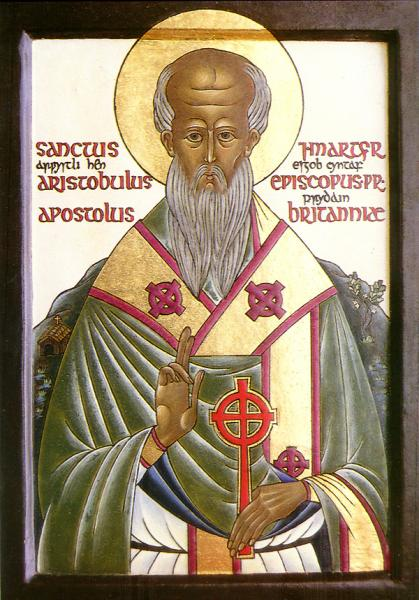 St. Aristobulus_of_Britain (ortodox icon)